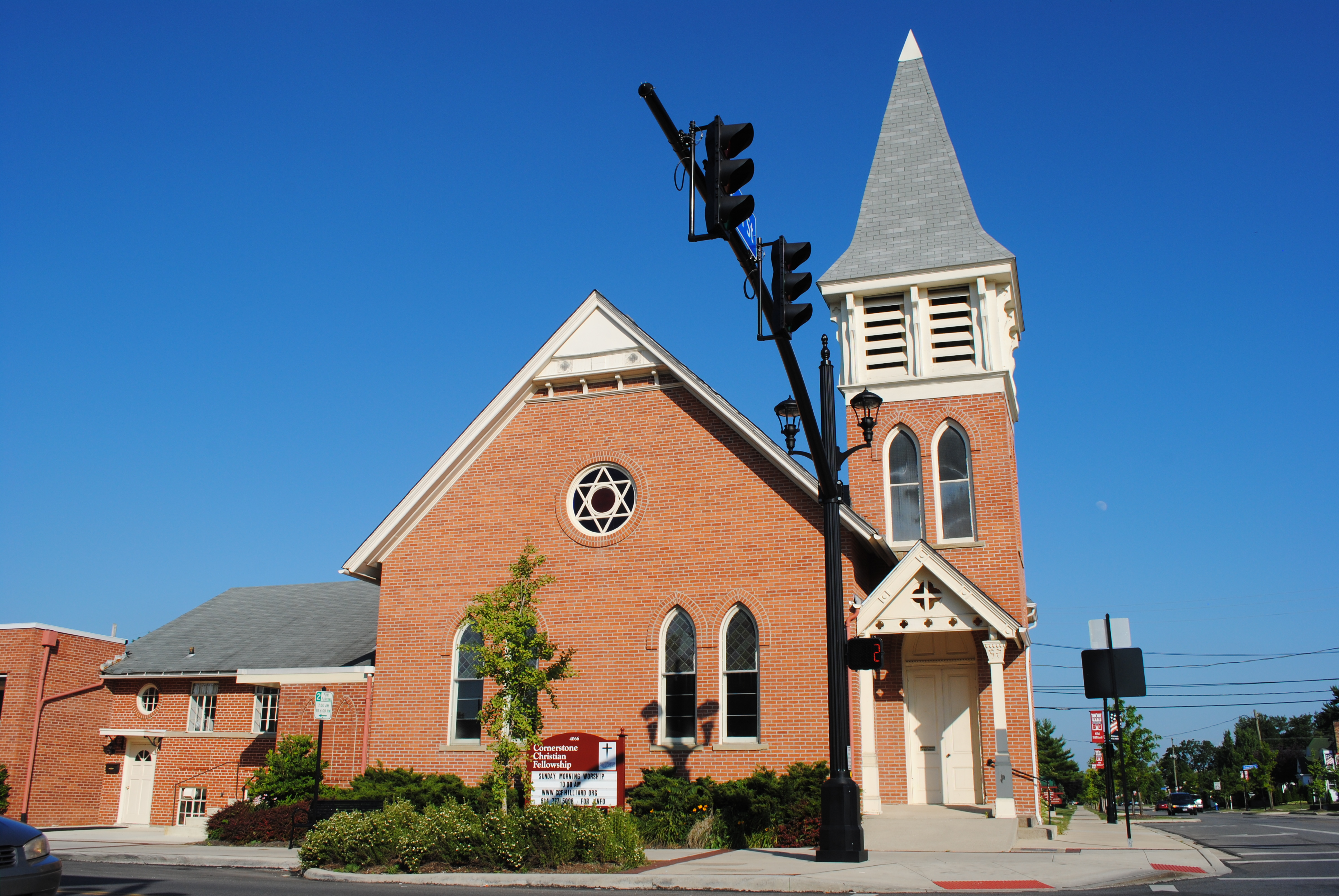 Hilliard Methodist Episcopal Church in Hillard, Ohio. It is listed on the National Register of Historic Places